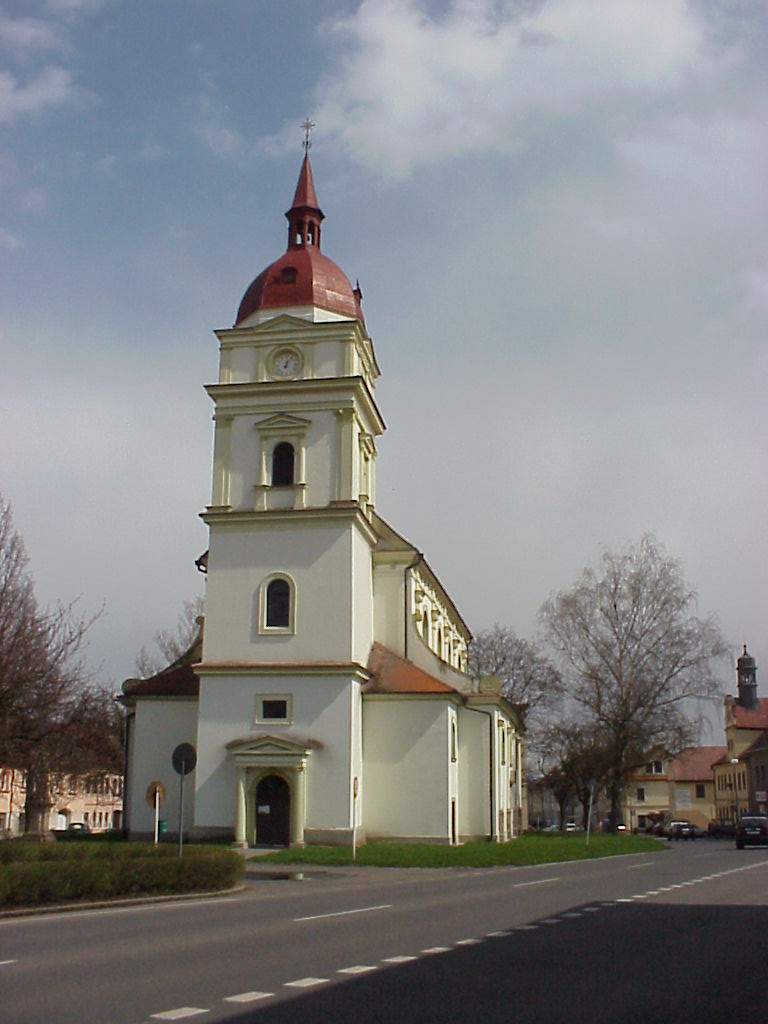 Church of the Nativity of the Virgin Mary in Chabařovice, Ústí nad labem District, Czech Republic.